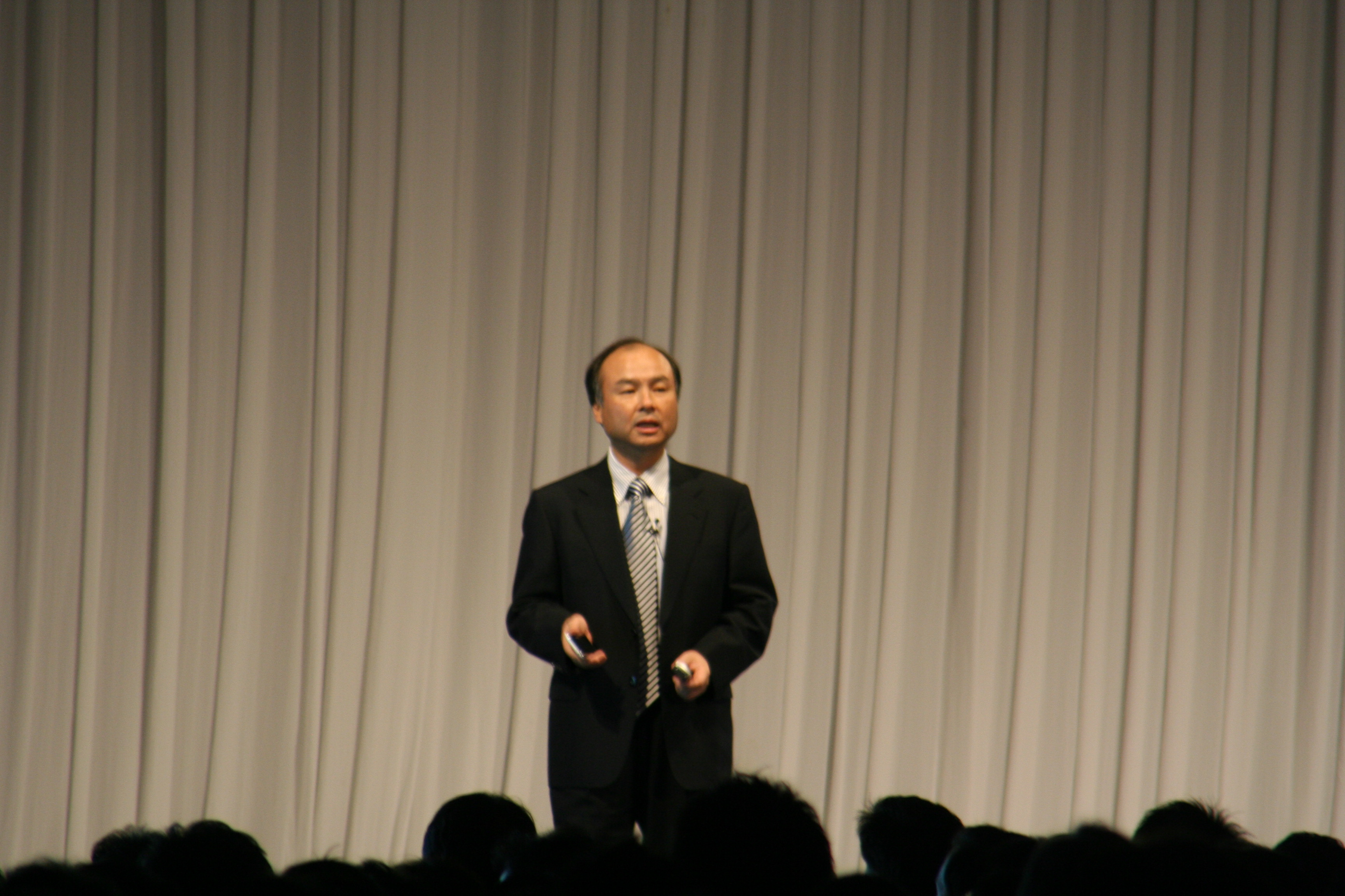 Masayoshi Son Softbank Mobile Summit 2008